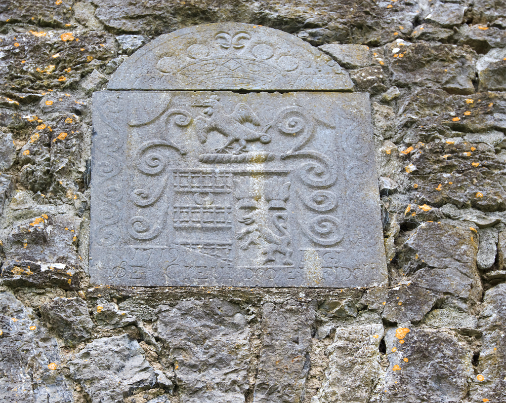 Castles of Connacht: Pallas, Galway (3) Armorial plaque over the outer entrance of the gatehouse.